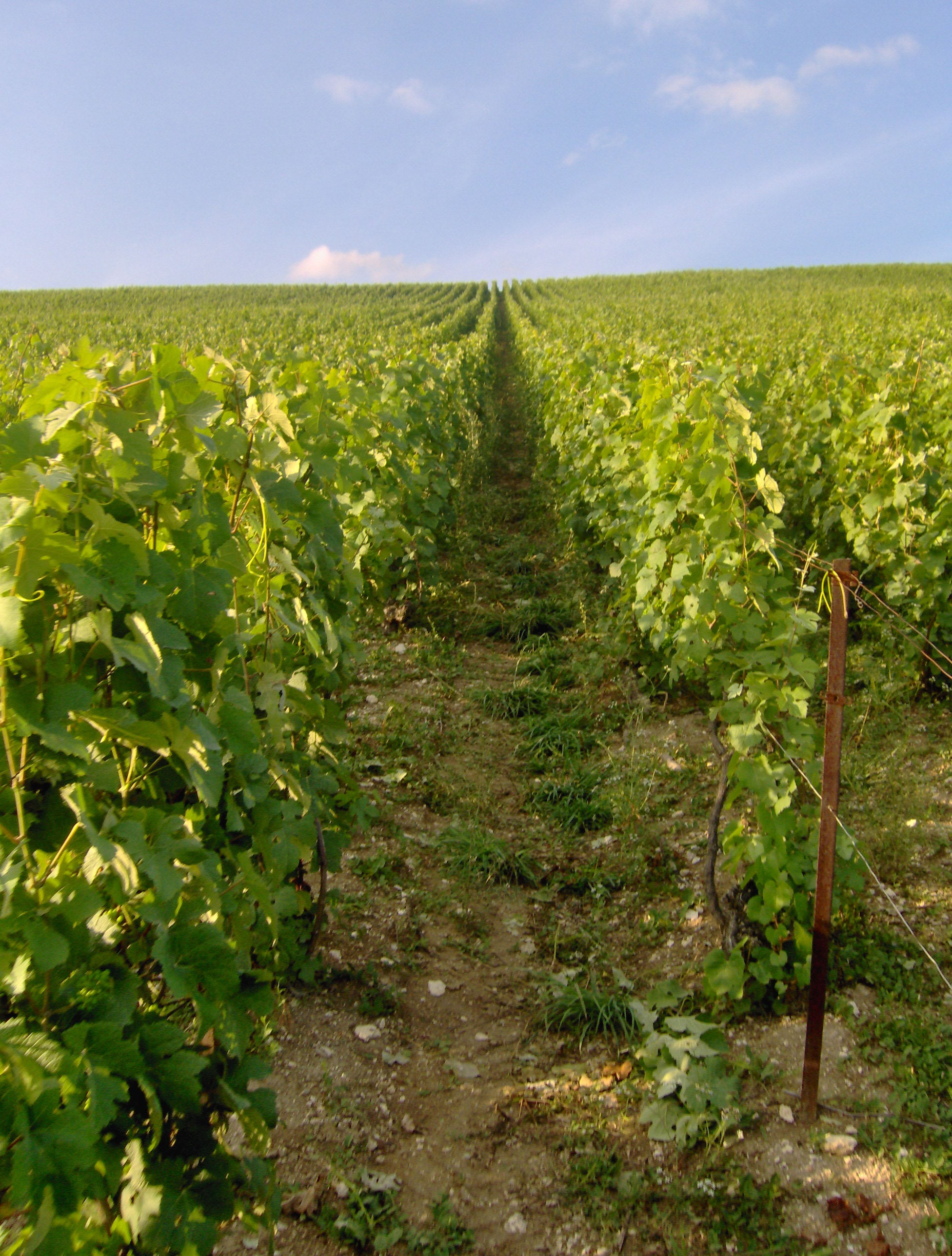 A vineyard in the Champagne region of Northeast France.